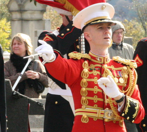 On Nov. 6, 2007, the Marine Band led by Drum Major Master Sgt. William Browne and Major Jason Fettig performed at John Philip Sousa's grave on his birthday at Congressional Cemetery in Washington, D.C. (U.S. Marine Corps photo by Gunnery Sgt. Kristin Mergen/released)